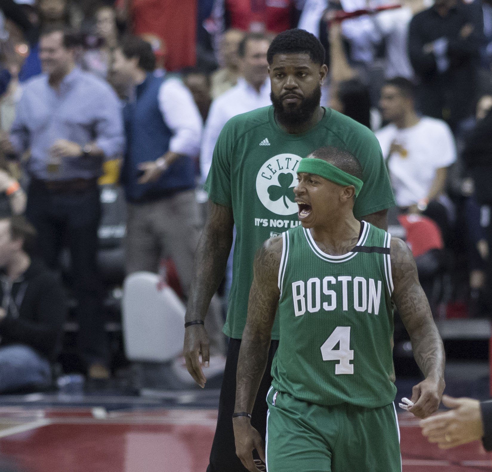 Isaiah Thomas of the Boston Celtics in a game against the Washington Wizards in Game Three of the Eastern Conference Semifinals at Verizon Center on May 4, 2017 in Washington, DC.